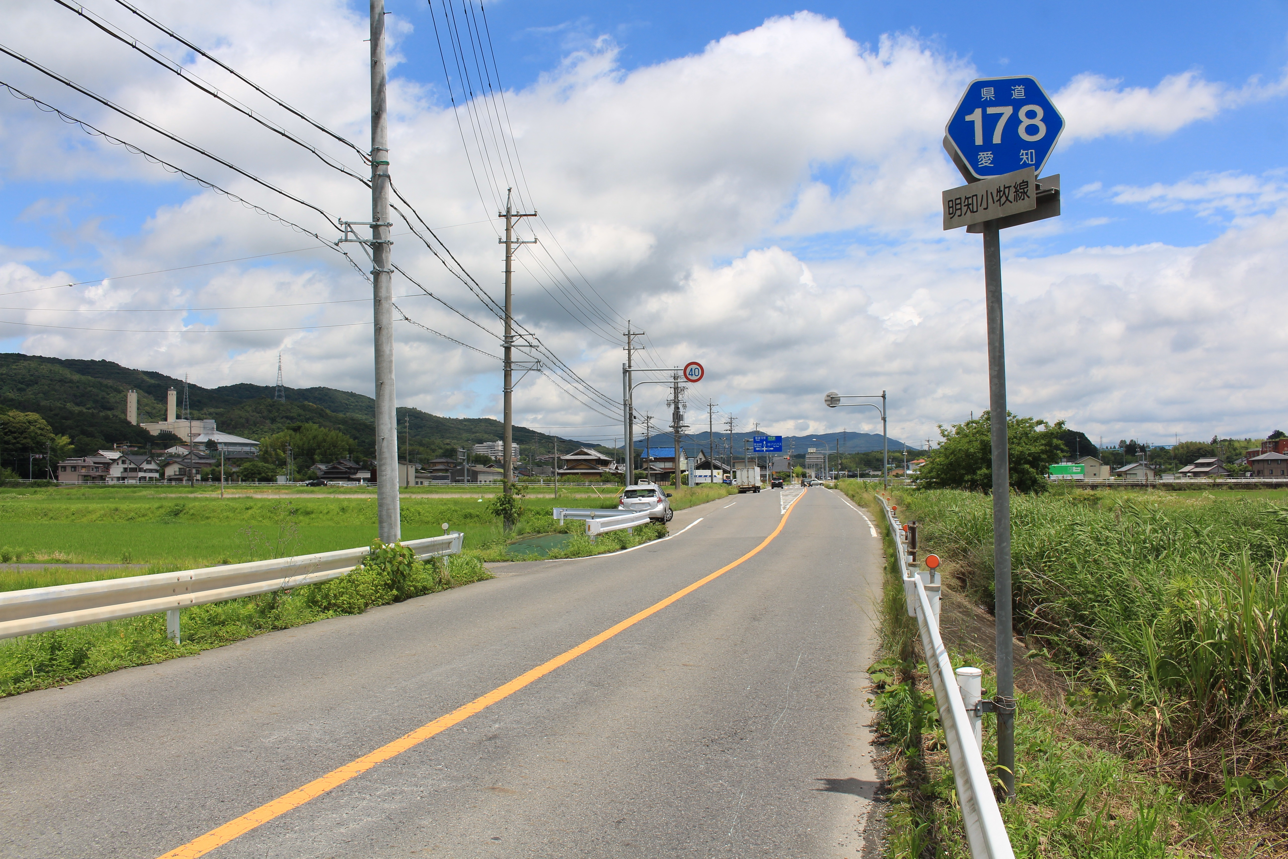 Aichi Prefectural Road Route 178 in Noguchi, Komaki, Aichi Prefecture, Japan.